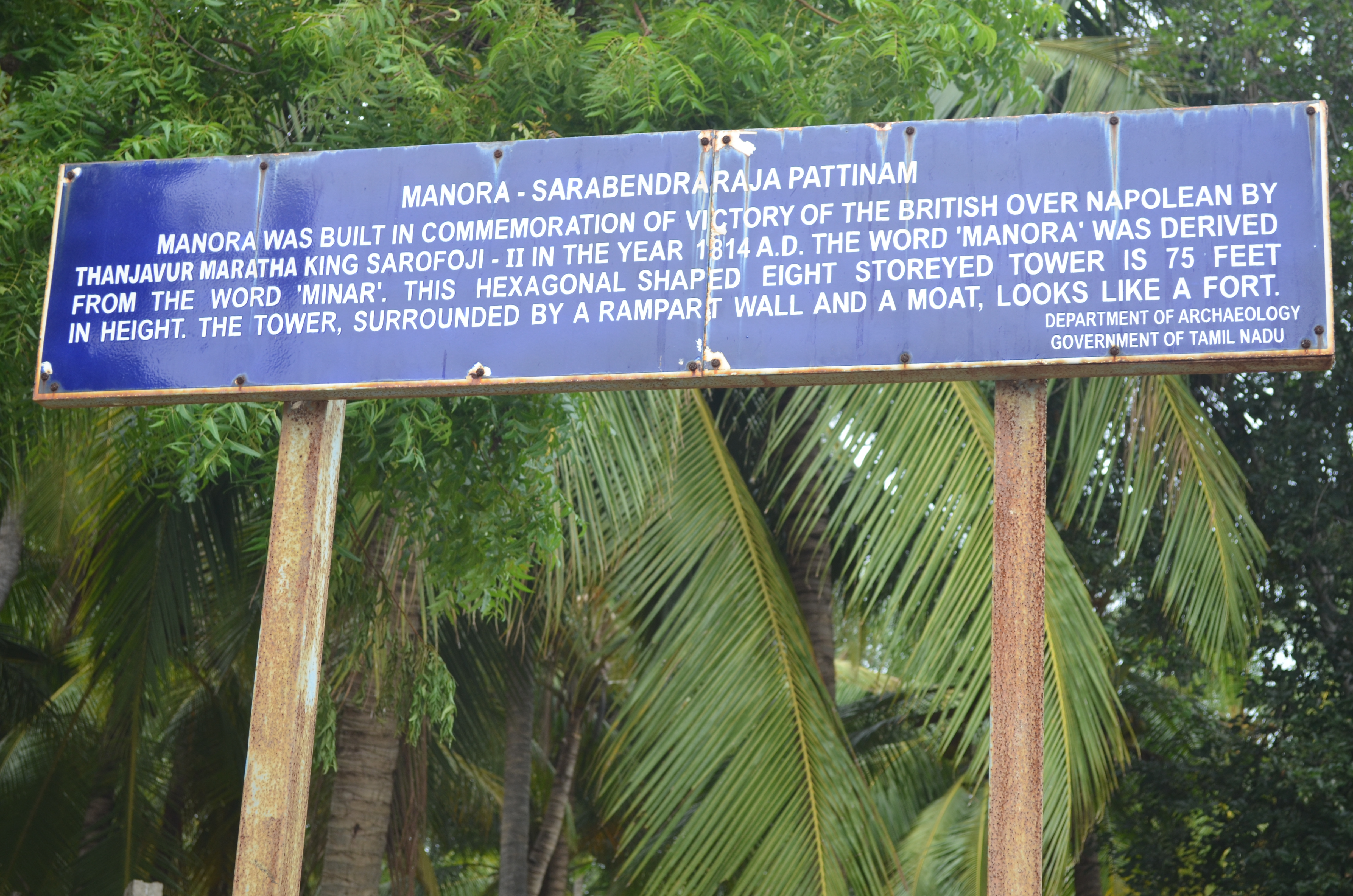 A message explaining the significance of Manora fort, Thanjavur